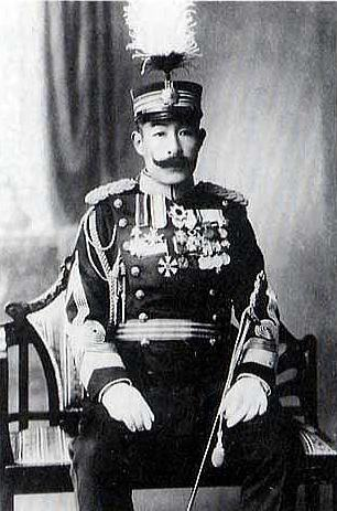 Matsue Toyohisa is an Imperial Japanese Army Major General